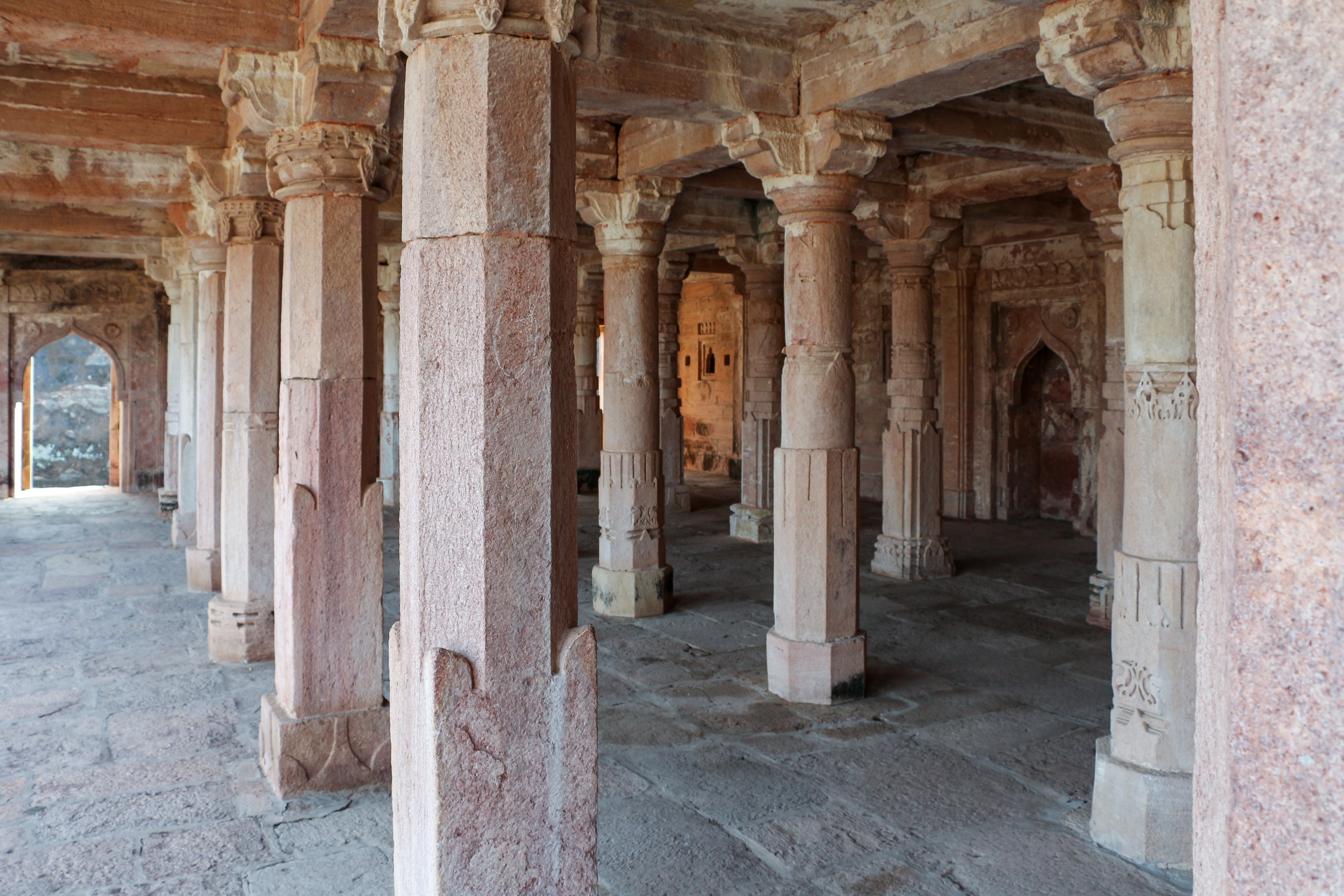 Prayer hall of Dilawar Khan's Mosque, Mandu, India